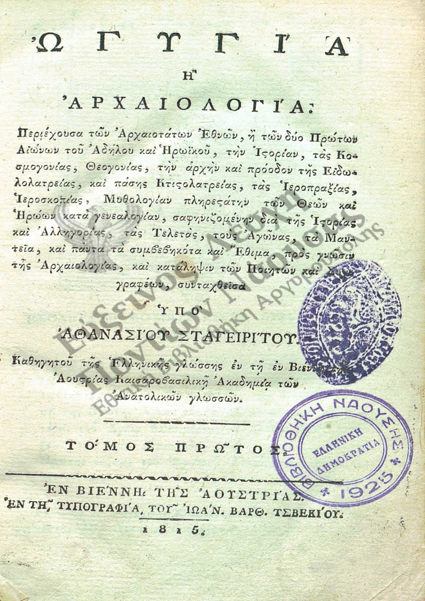 Title page of the work Ogygy, or Archaelogy by Athanasios Stageiritis, 1815